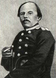 Fedor Dostoevsky in Semipalatinsk in 1859 (Fragment of the group photo with Chokan Valihanov)